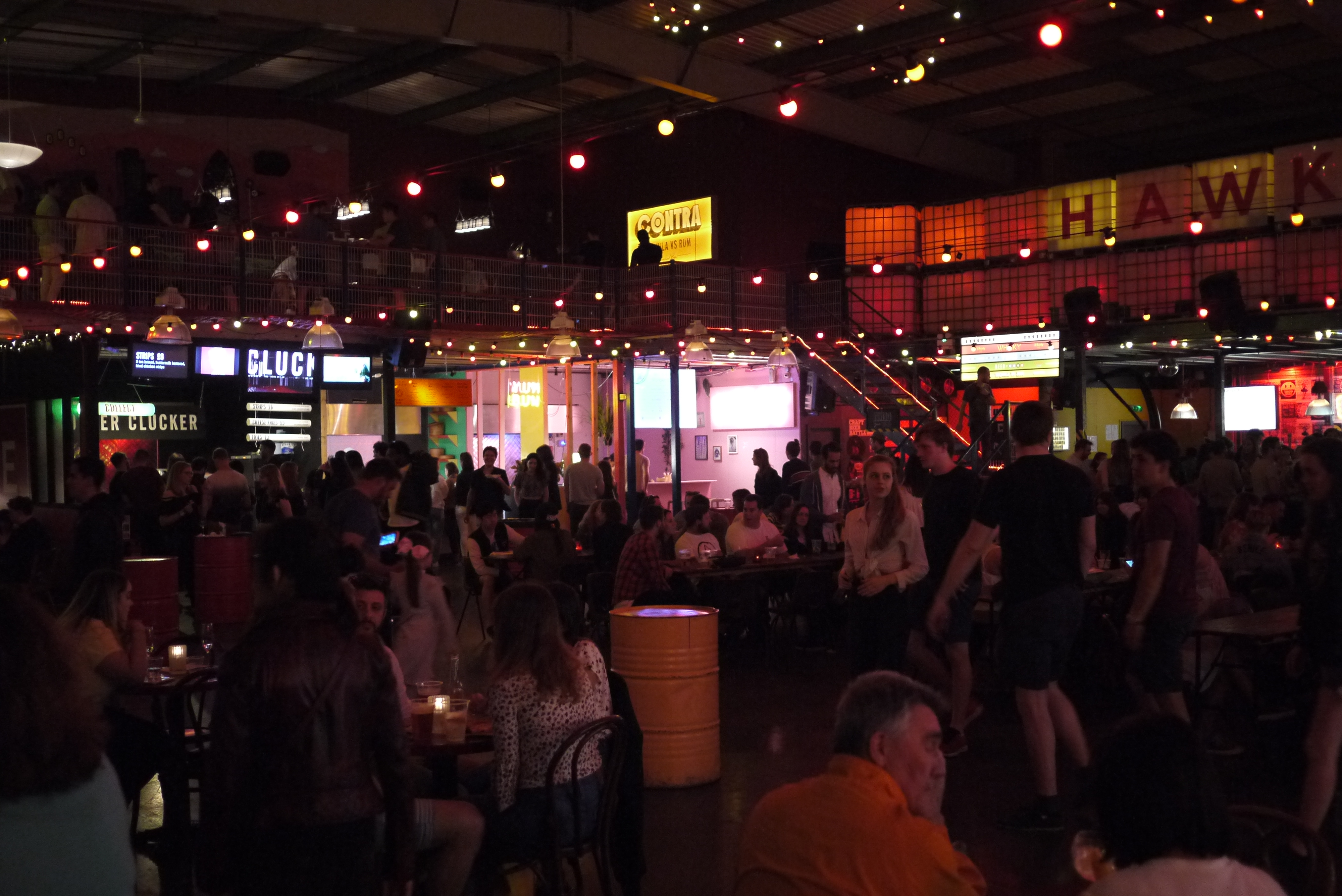 Hawker House in Canary Wharf, London